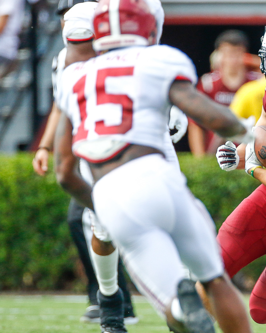 Photo by Chris Gillespie